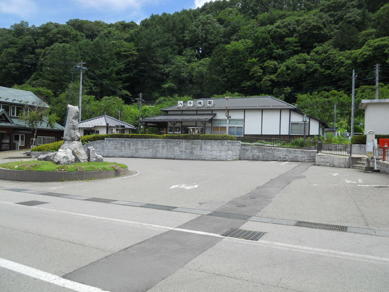 Yachiho Station on the JR Koumi Line